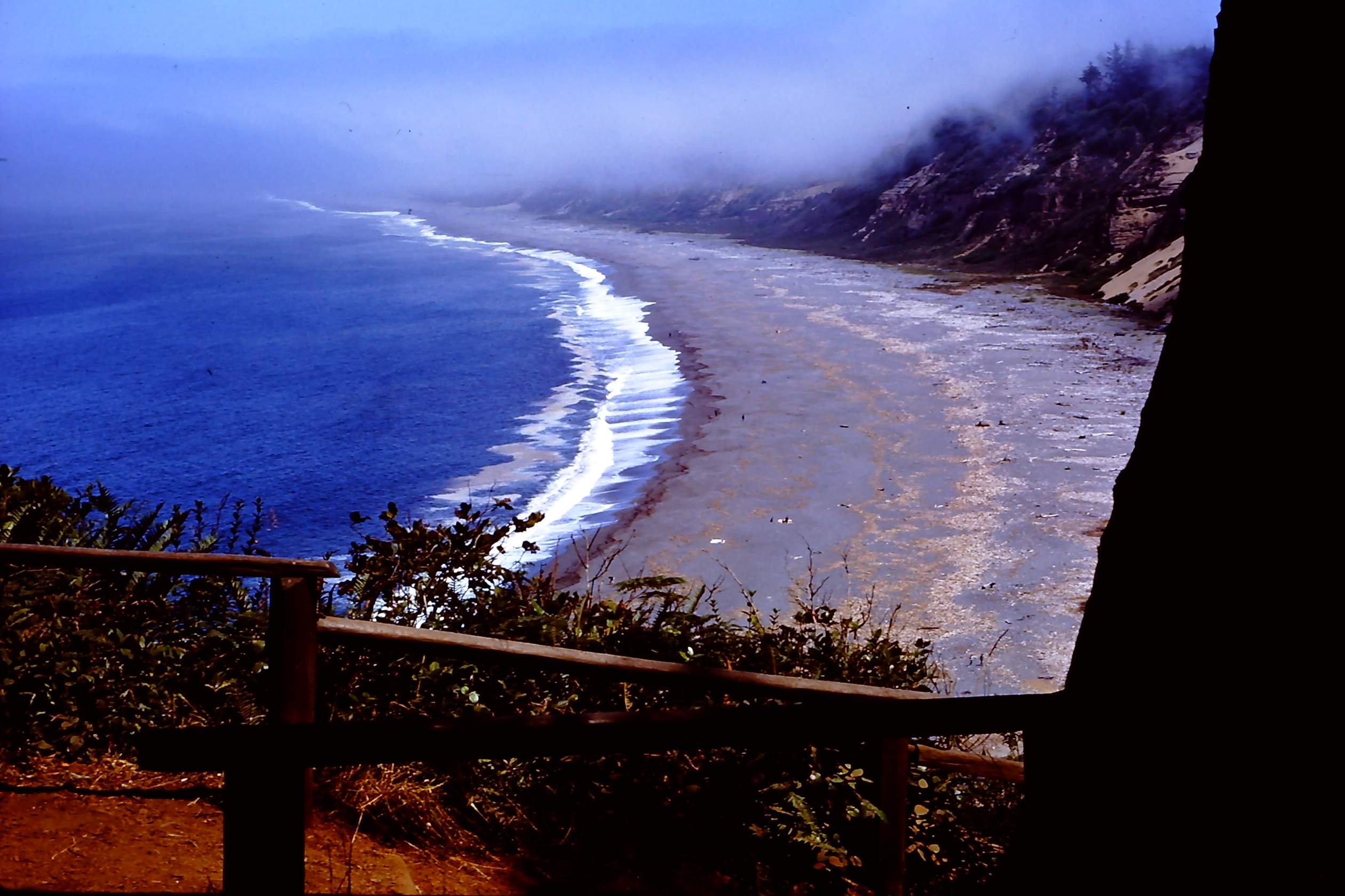 Dr. Dennis Bogdan - Visiting Patrick's Point State Park in California - 1967. NOTE: If redistributing, please be consistent with the Creative Commons Attribution-ShareAlike 4.0 License and the GNU Free Documentation License agreements. Nikon (35mm) camera – scanned 35mm slide - Location = Patrick's Point State Park - 1967 Previously published: none